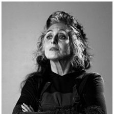 The Norwegian (from Trondheim) non-fiction author, feminist, activist … Berit Rusten (b. 1950)